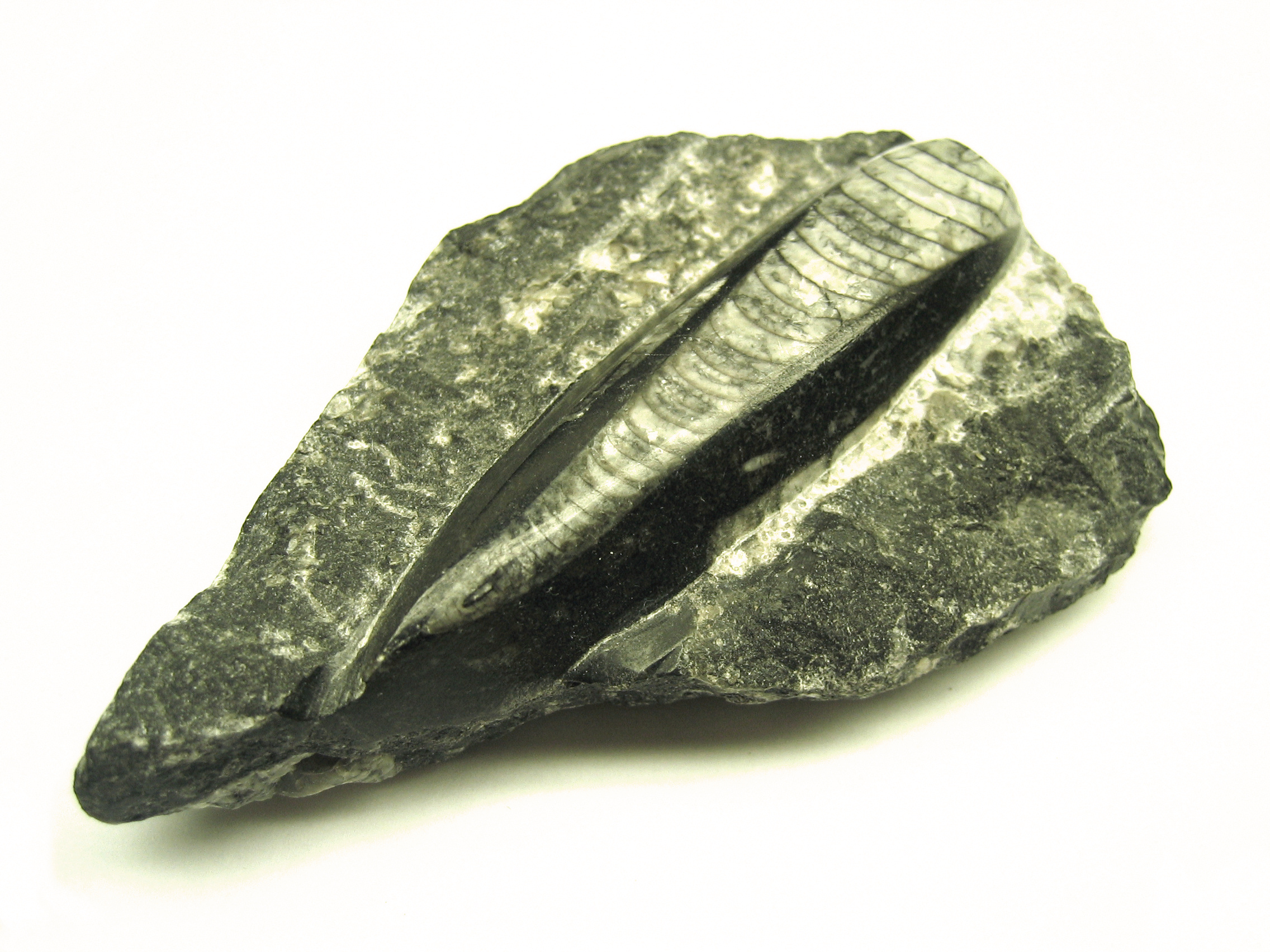 Macro of Silurian Orthoceras Fossil.